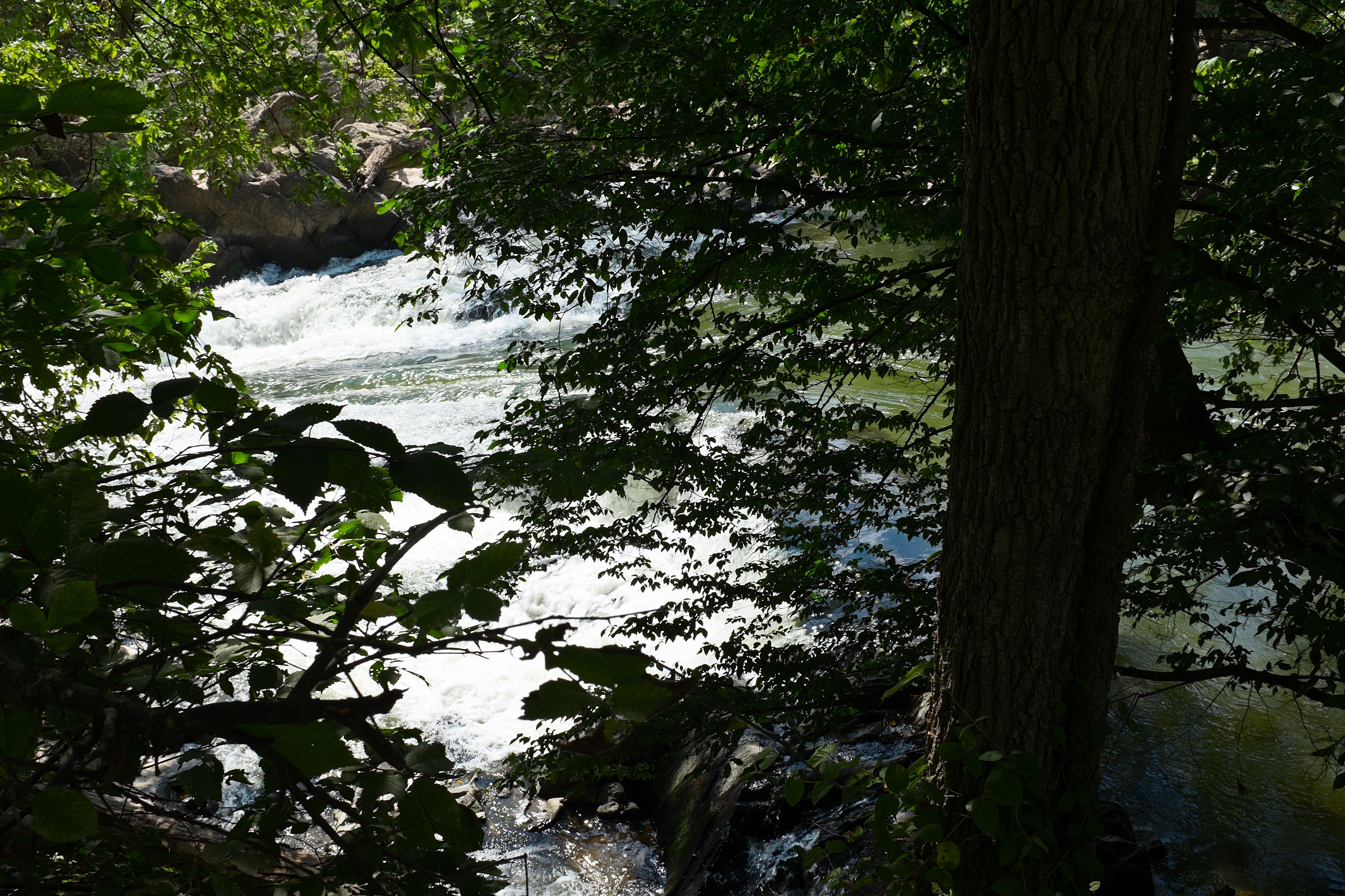 Small dam for Great Falls Feeder, seen from Towpath, at about 14.12 miles or about 81 feet above Lock 18 (See Hahn, Towpath Guide p. 42). Feeder has been abandoned and inlet culvert is bricked in, being made redundant by Dam No. 2. According to Unrau (Historical Resource Survey), it was on Canal Section No. 18, contracted to Bargy and Guy to construct, and finished in April, 1831 at a cost of $2,110.45. Note: this small dam has nothing to do with the Washington Aqueduct dam made later.